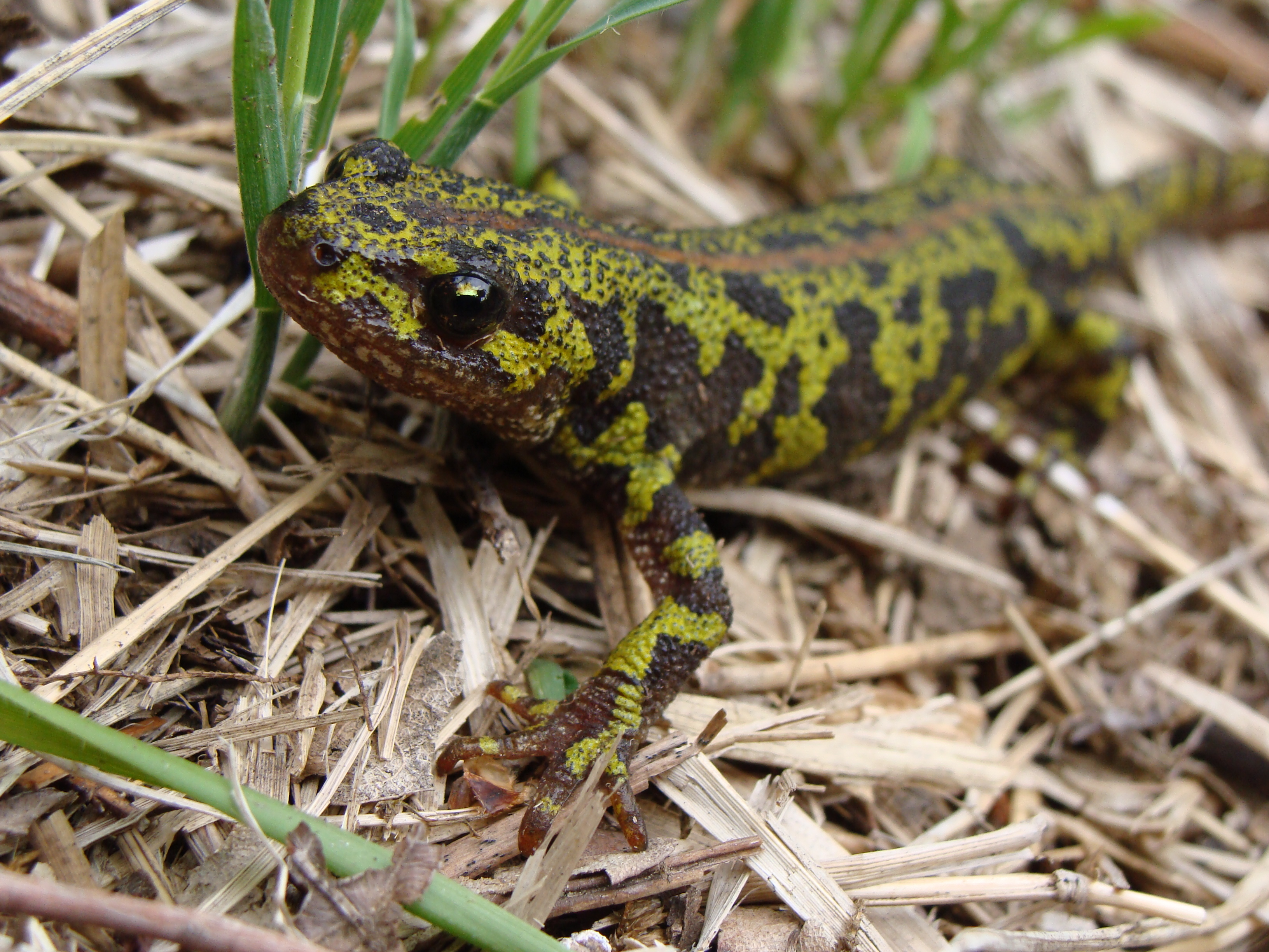 Marbled Newt (Triturus marmoratus) in the Peneda-Gerês National Park, Portugal.